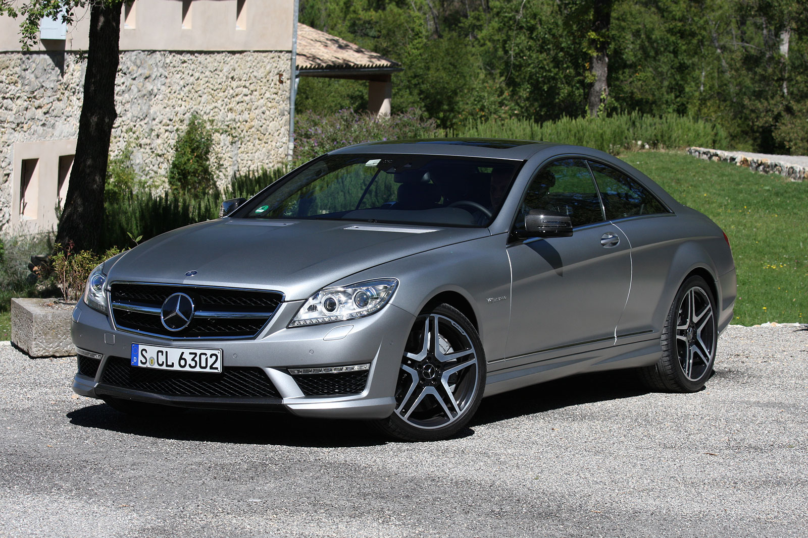 Mercedes-Benz CL63 AMG, facelift 2010, EU spec